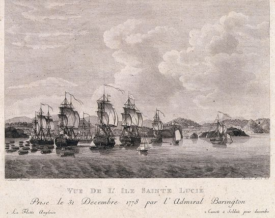 View from the island of St. Lucia in December 1778 taken by the squadron and the troops of Barrington.